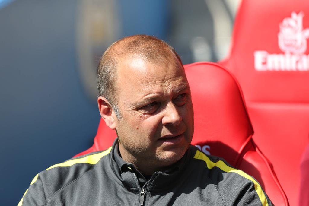 Rodolfo at the emirates in 2019